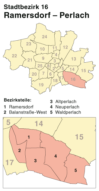 Boroughs of Munich map series